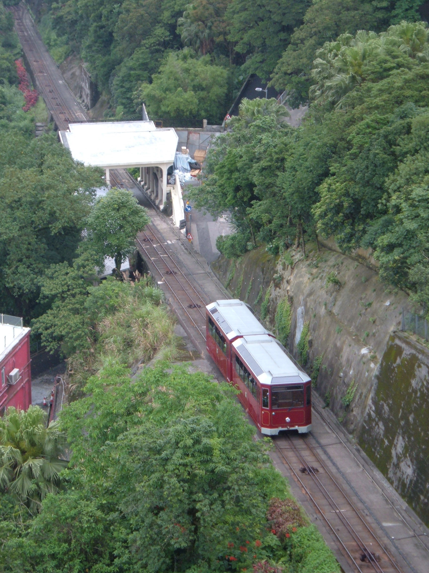 A Peak Tram descending towards an intermediate station in Central, Hong Kong.